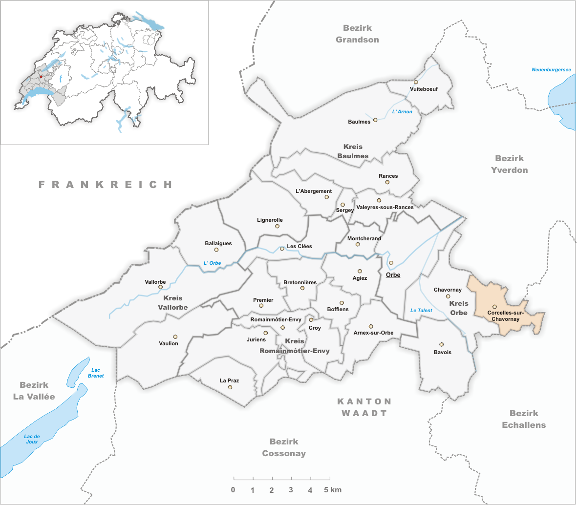 Municipality Corcelles-sur-Chavornay